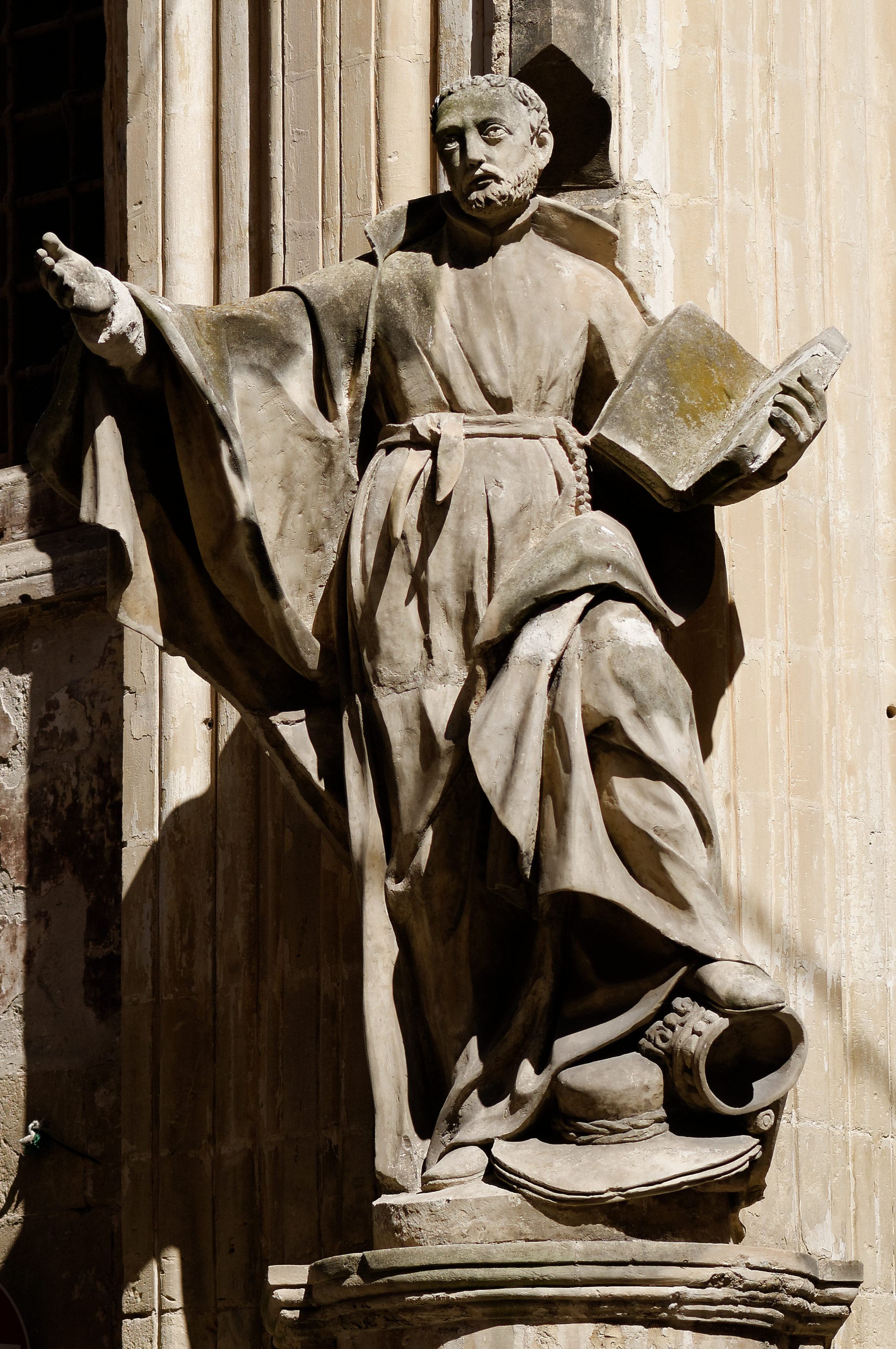 Statue of a Jesuit saint on the façade of the Jesuits' Church (Tal-Gizwiti) in Valletta, Malta.